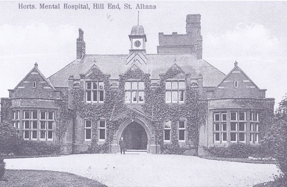 Old photograph of Hill End Hospital, Hertfordshire